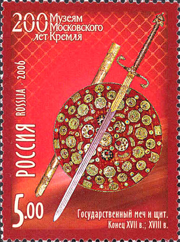 The 200th anniversary of the Moscow Kremlin museums. State sword and shield. End 17th Century, beginning 18th Century.